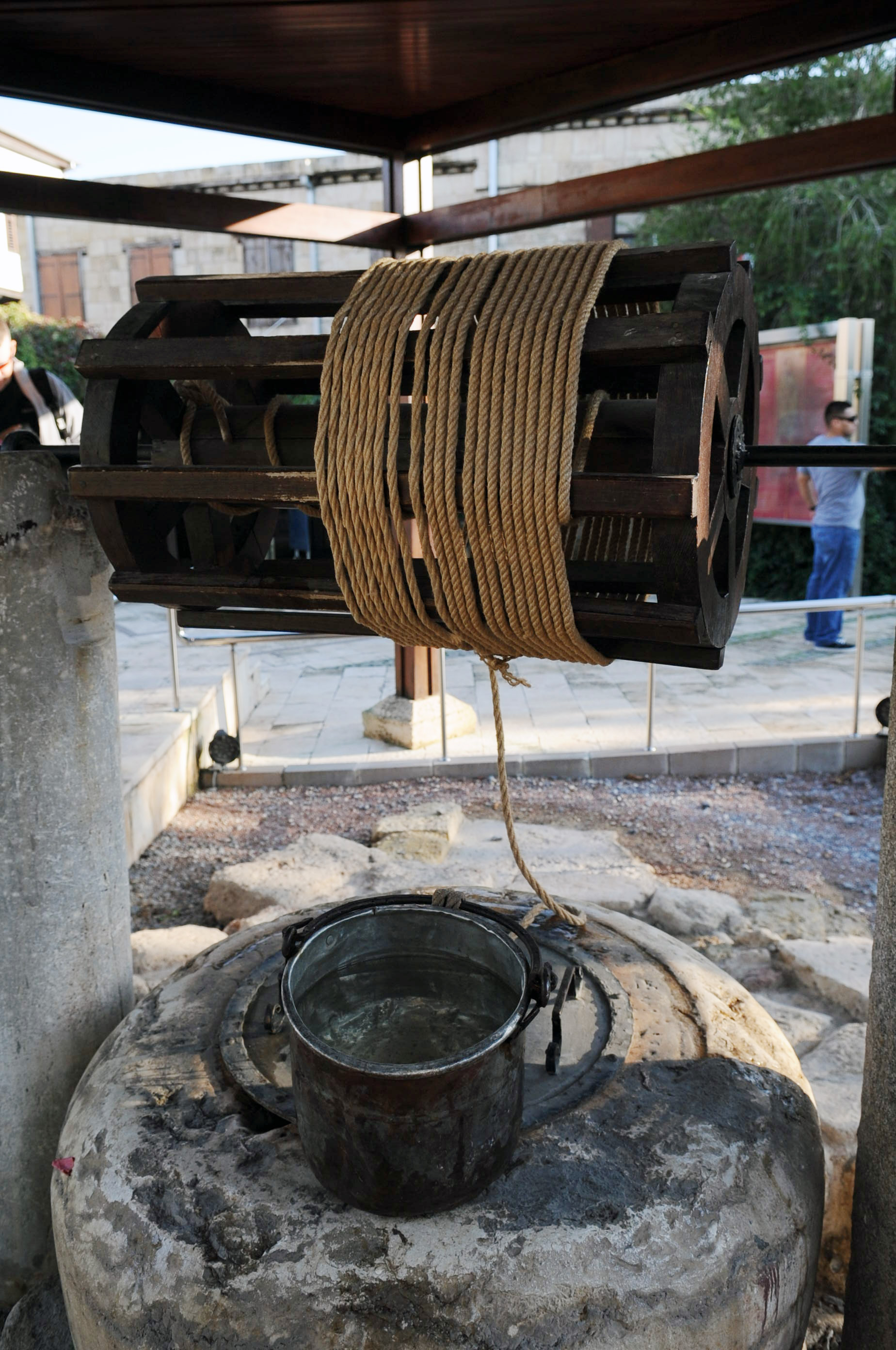 St. Paul's Well is a popular tourist attraction in Tarsus, Turkey, Nov. 14, 2012. The water in the well in drinkable, and many visitors drop the bucket to pull water out. Tarsus was the birthplace of Saul of Tarsus who became Paul the apostle after his conversion to Christianity.